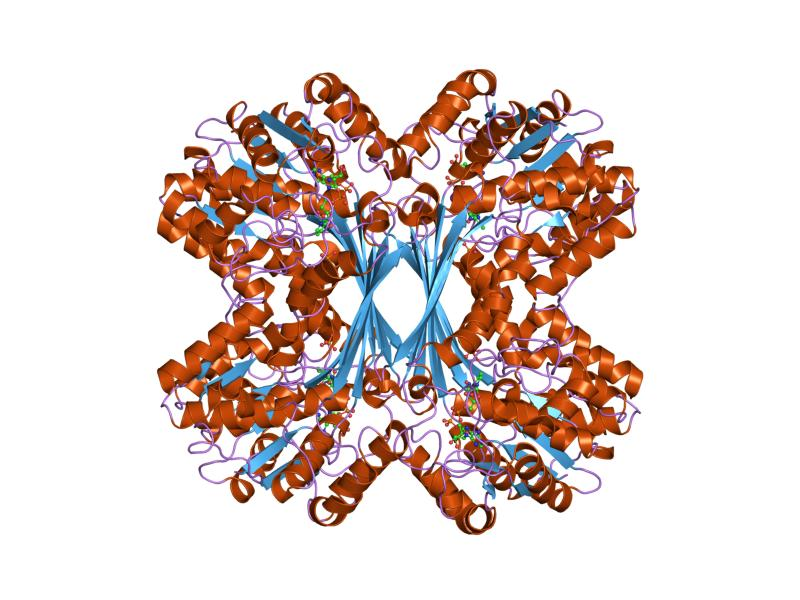 Cartoon representation of the molecular structure of protein registered with 1u1i code.